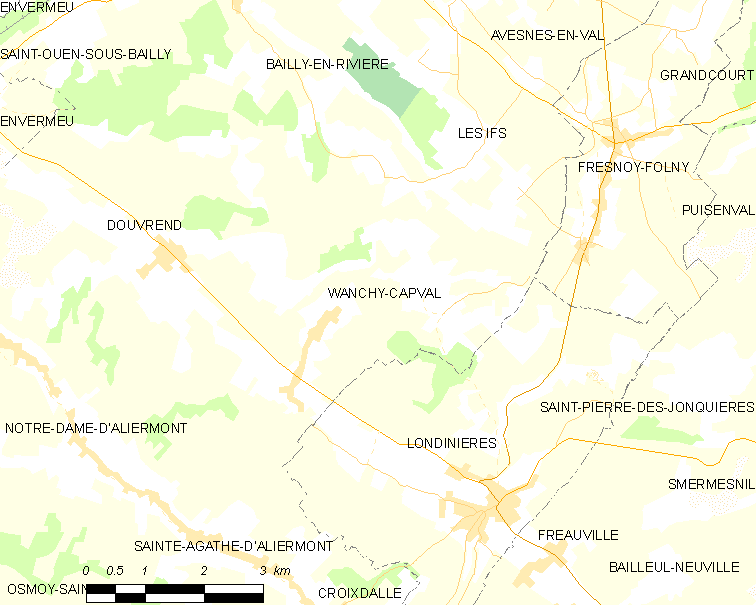 Map of French municipality Wanchy-Capval